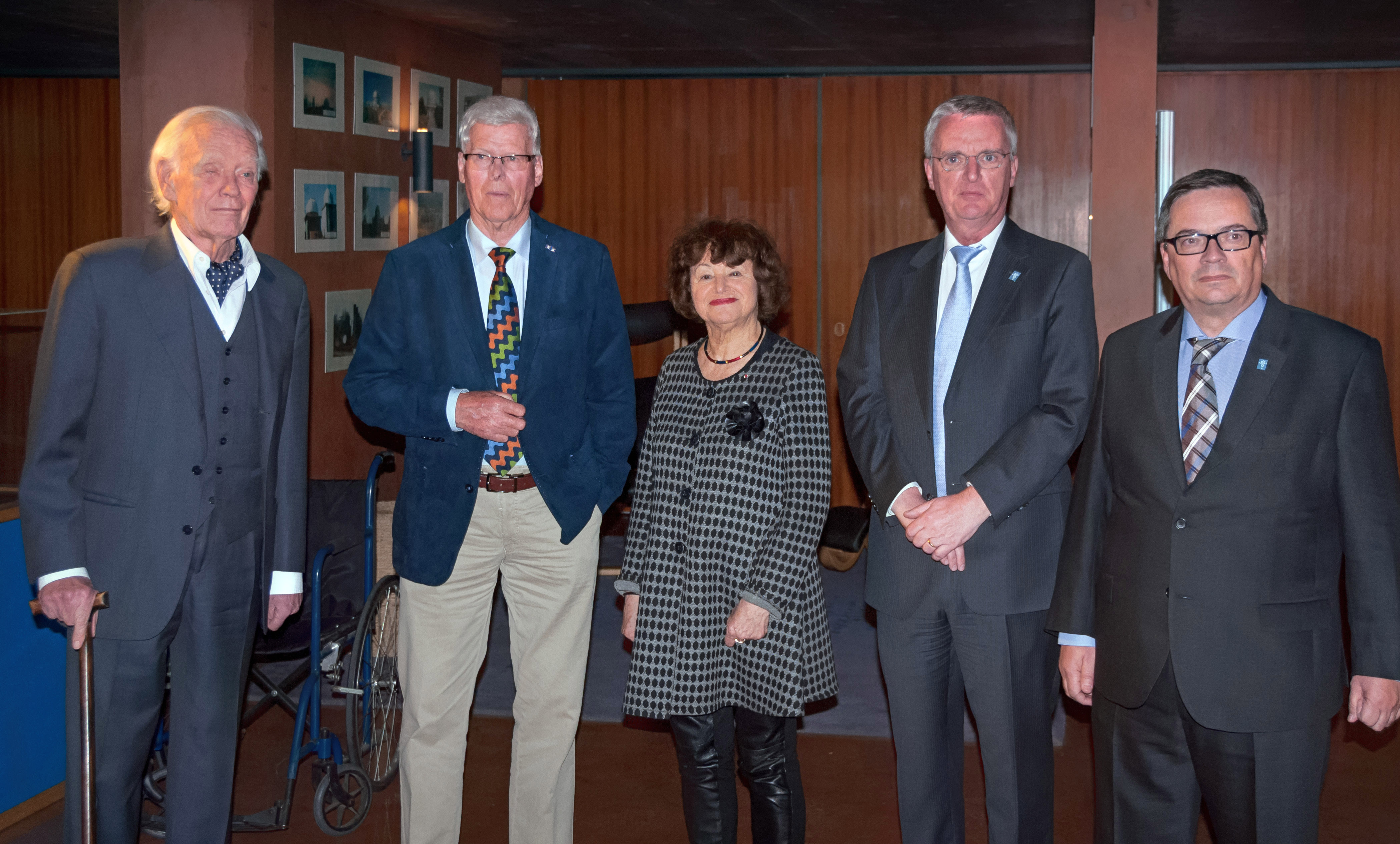 Past, present and future Directors General of ESO at the Paranal Residence regarding the First Stone Ceremony for the Extremely Large Telescope on 26 May 2017. From left to right: Lodewijk Woltjer (1974–1987); Harry van der Laan (1988–1992); Catherine Cesarsky (1999–2007); Tim de Zeeuw (2007–2017); and Xavier Barcons (2017–). Regrettably, Riccardo Giacconi (1993–1999) could not attend the ceremony.